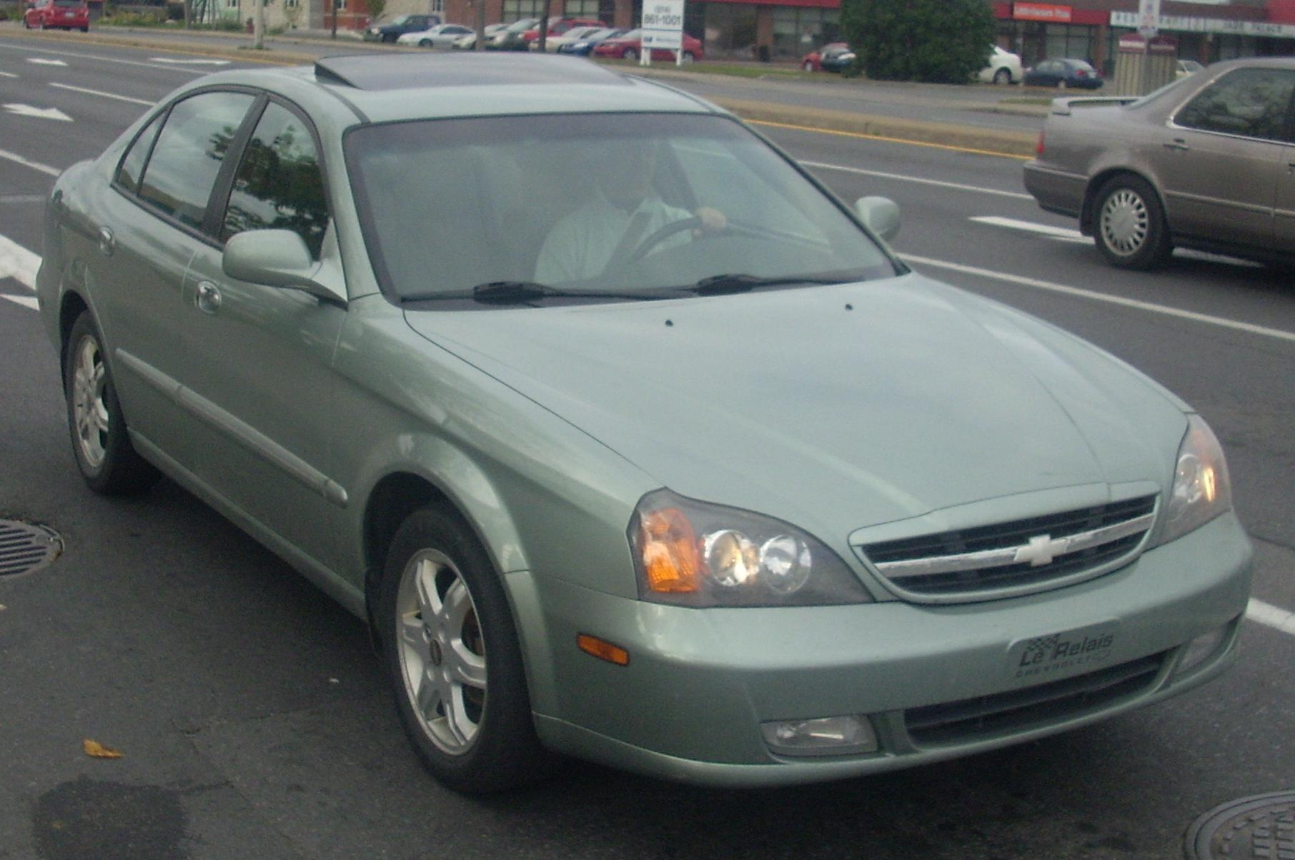 2004-2006 Chevrolet Epica photographed in Montreal, Quebec, Canada.